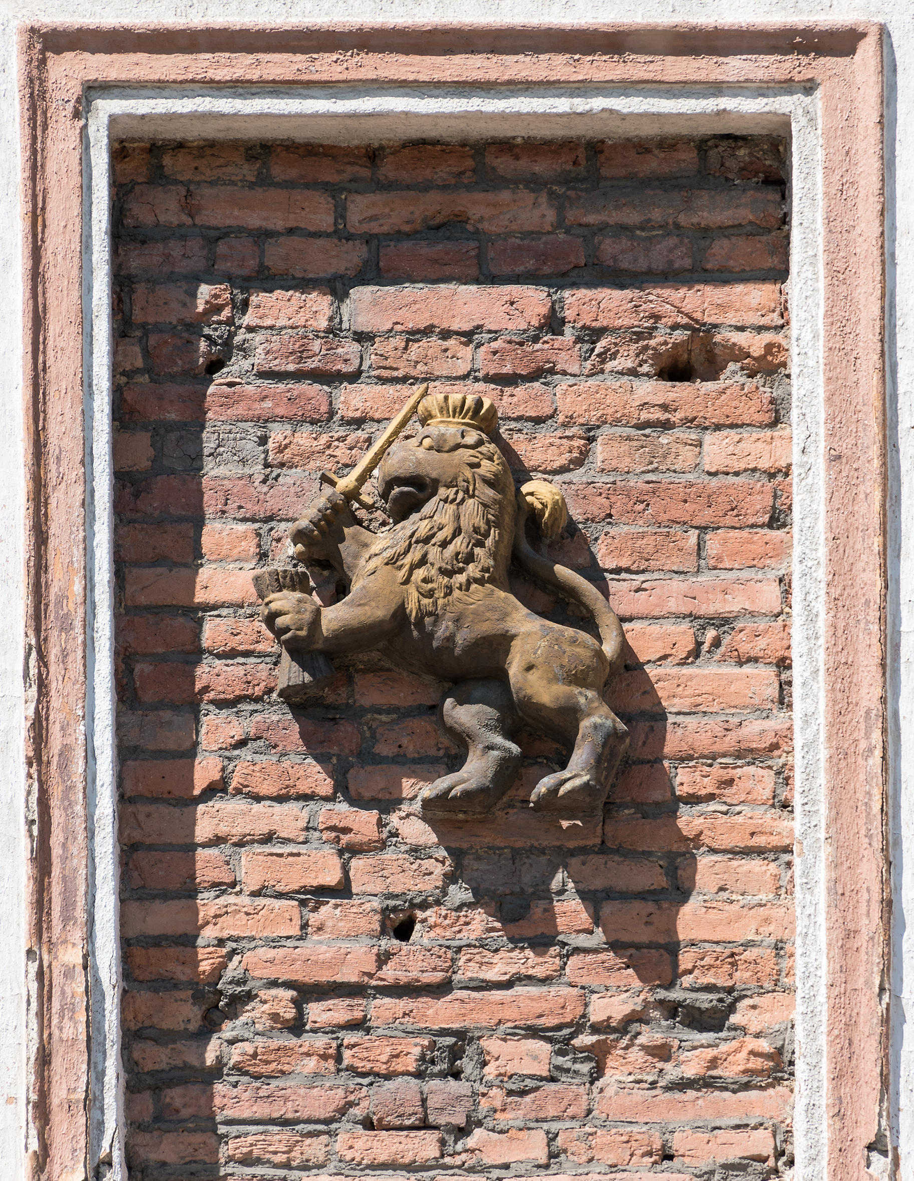 Oranje-Nassau coat of arms in Stronie Śląskie